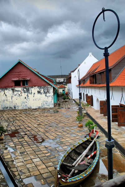 Inside Maritime Museum (Musem Bahari)